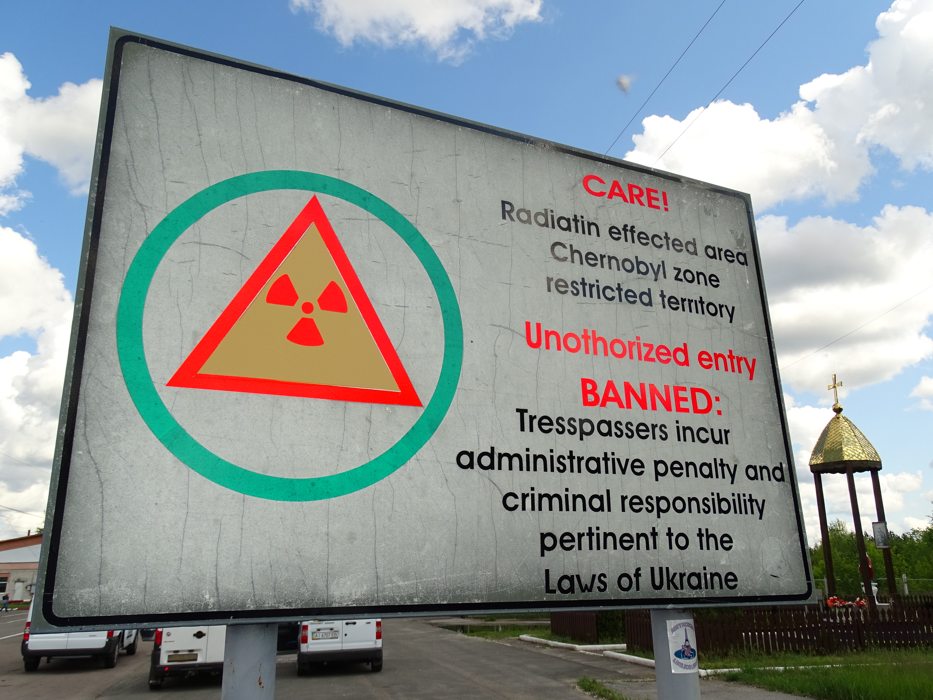 Sign at Entrance to Chernobyl Exclusion Zone - Northern Ukraine